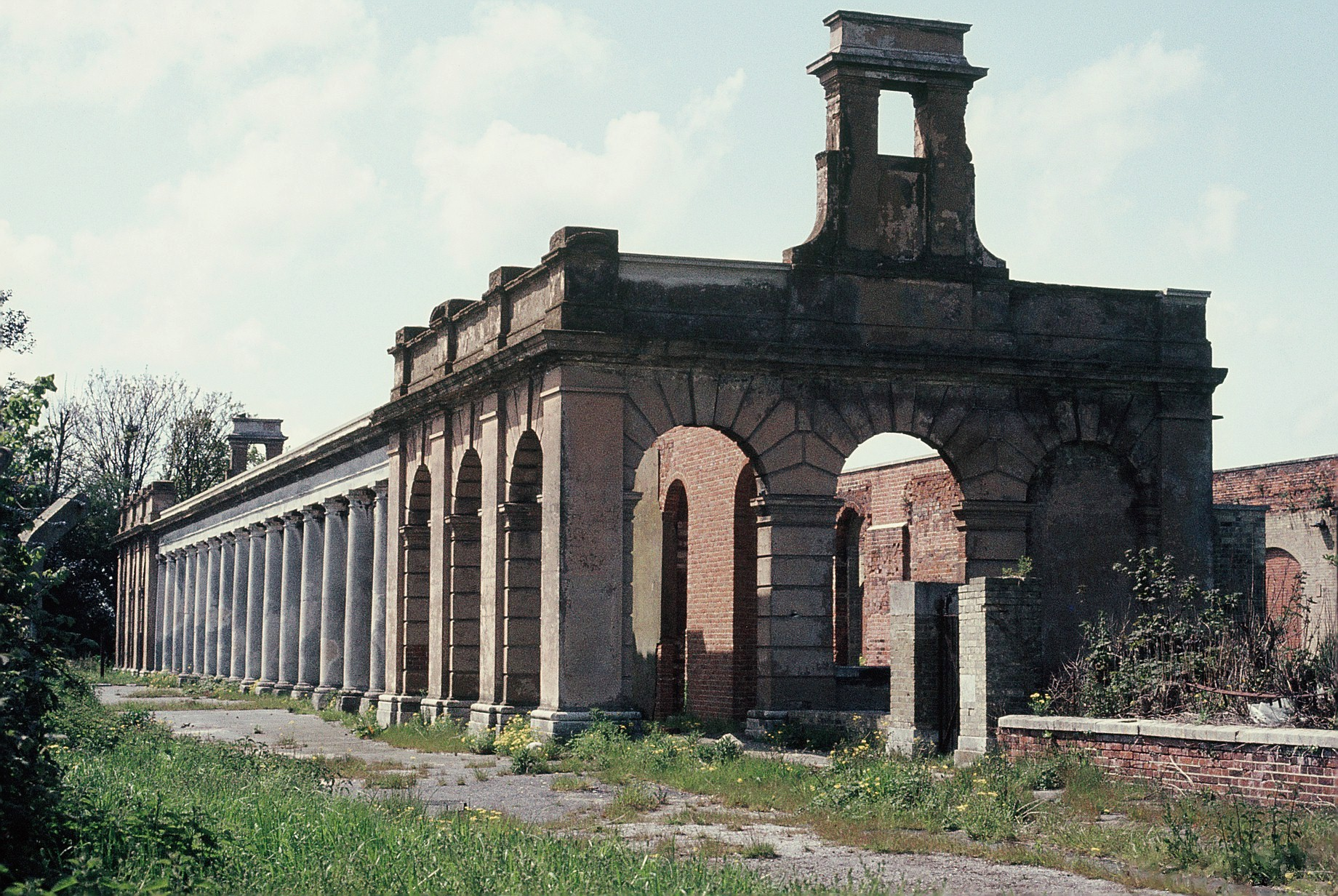 Remains of Gosport railway station.